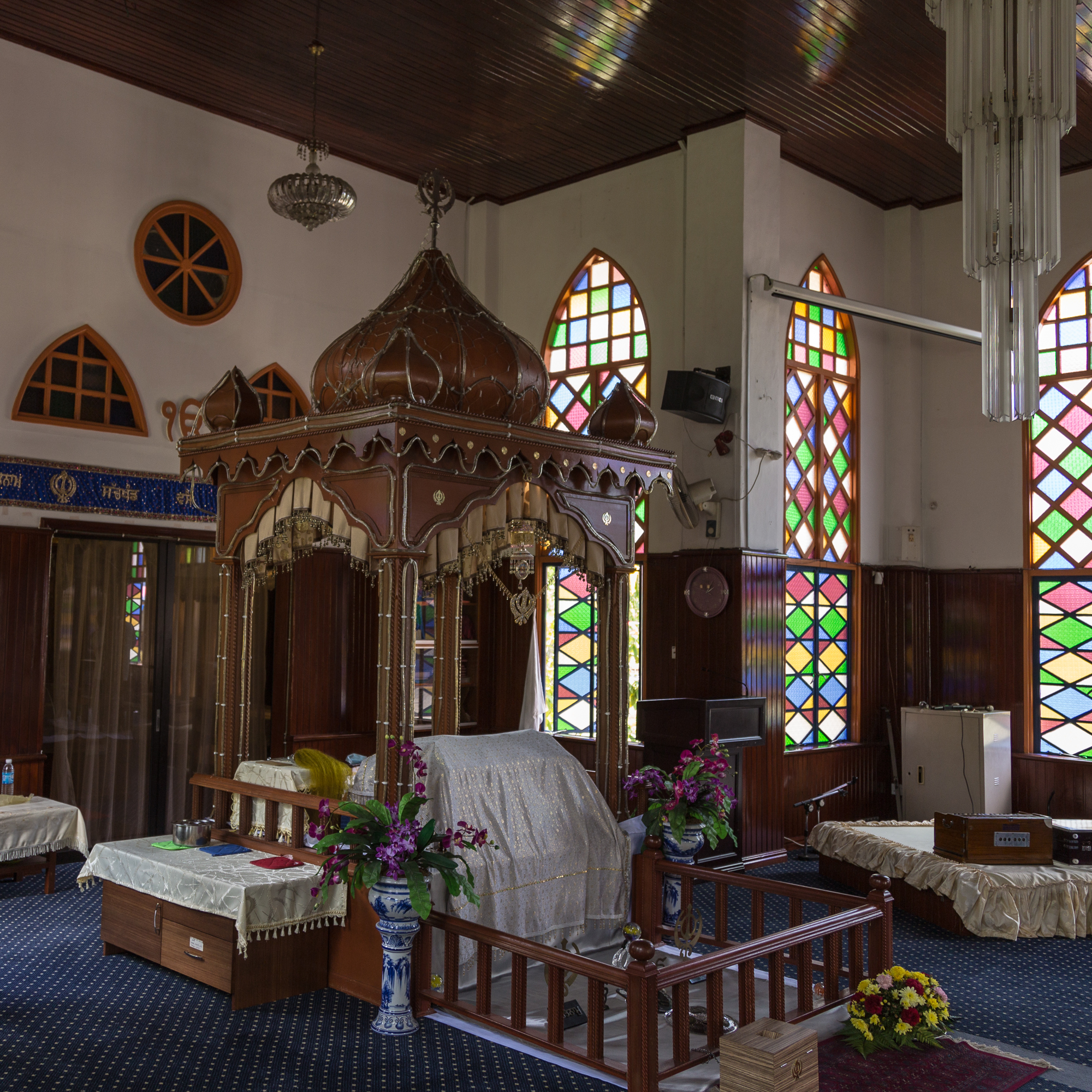 Kota Kinabalu (Sabah): Gurudwara Sahib (Sikh Temple), built in 1924